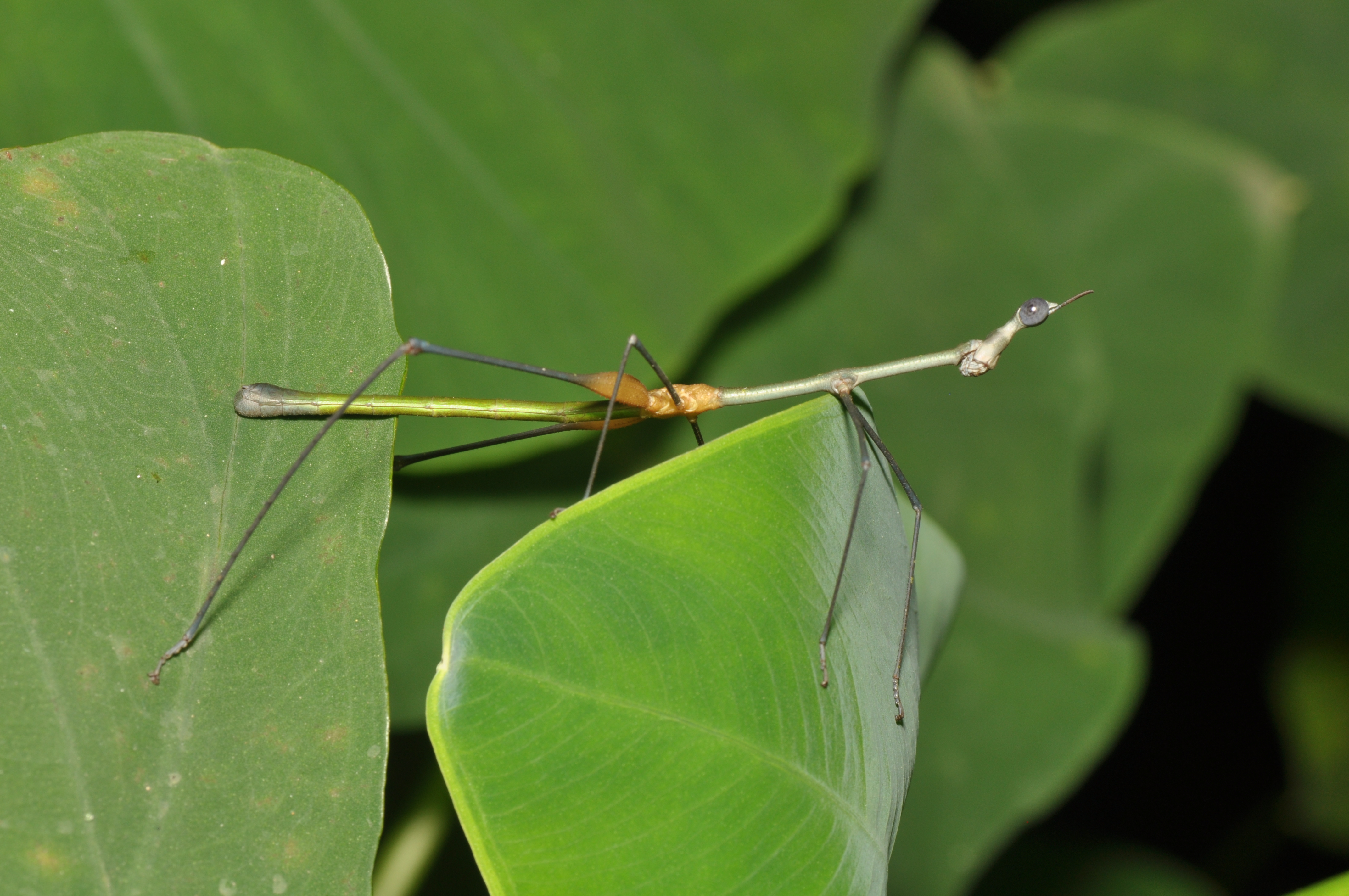 Horsehead grasshopper